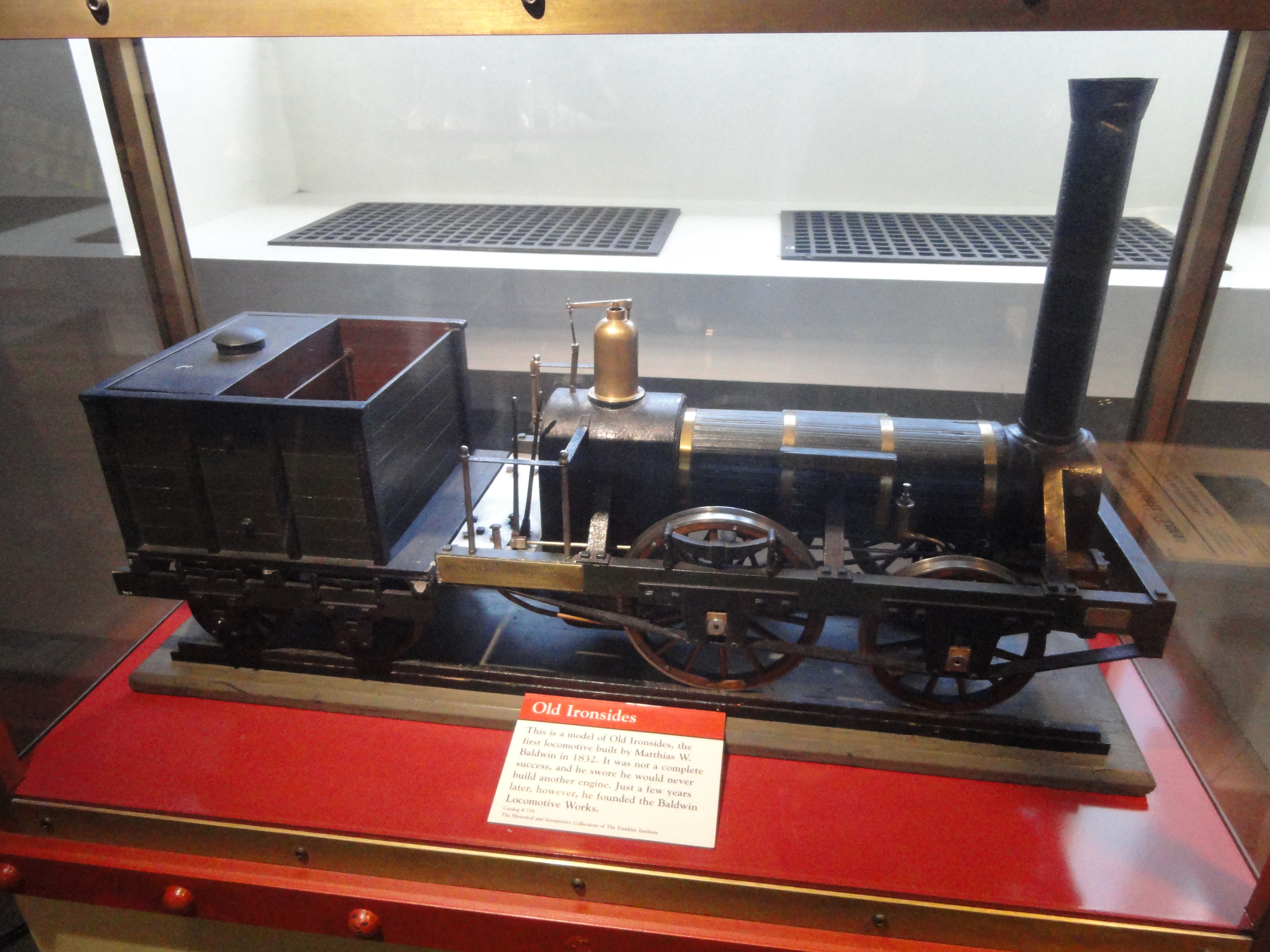 Exhibit in the Franklin Institute, Philadelphia, Pennsylvania, USA.